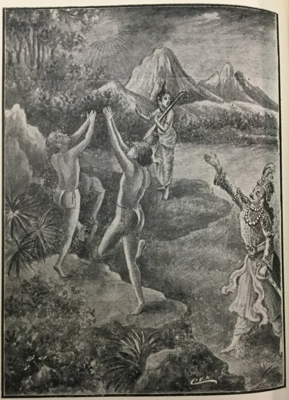 RARE PICTURES FROM A 100 YEAR OLD BOOK IN THE BRITISH LIBRARY, LONDON.